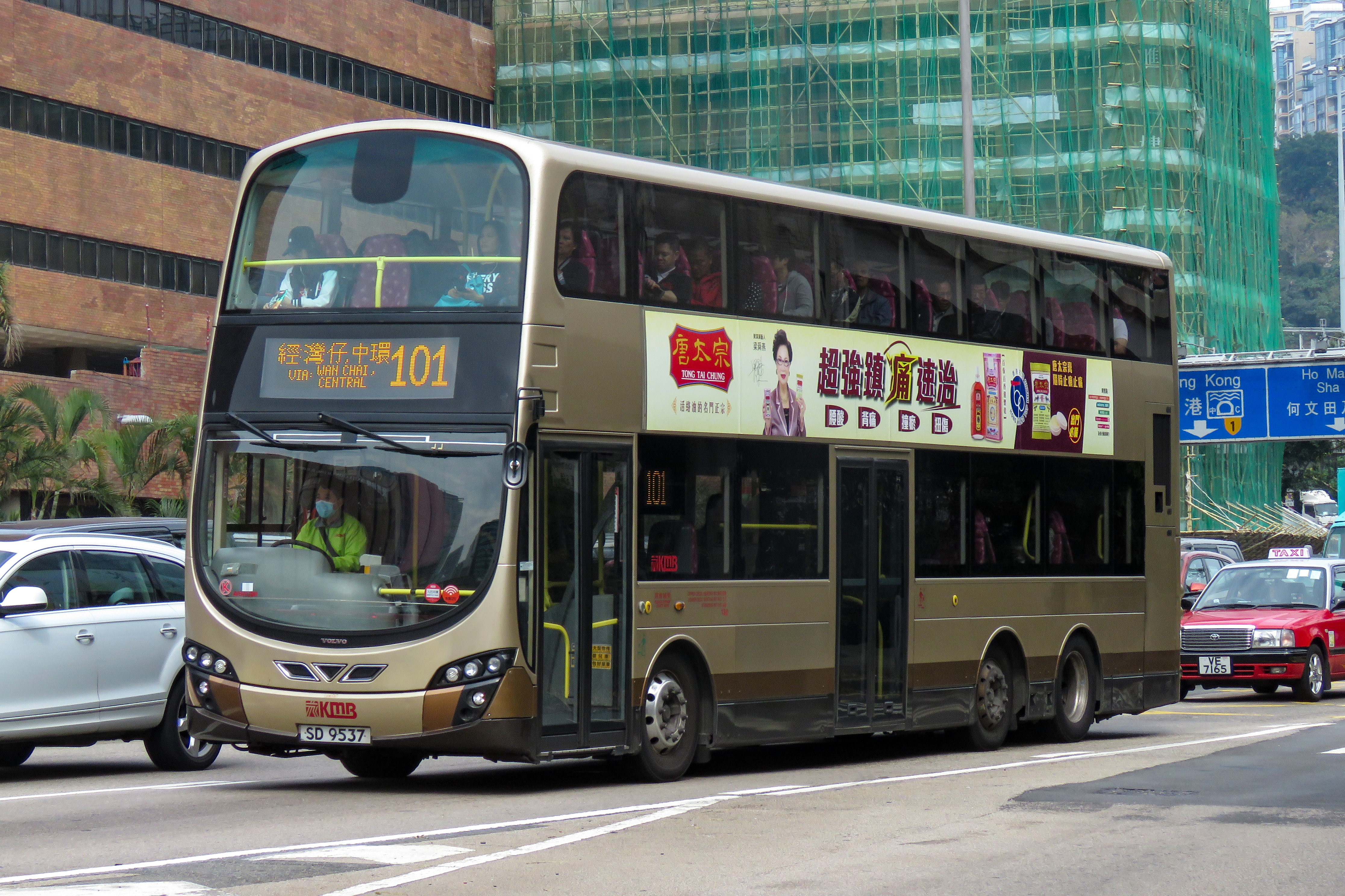 Something special with wheels. Later it turned out to be KMB's first high-capacity B9TL.